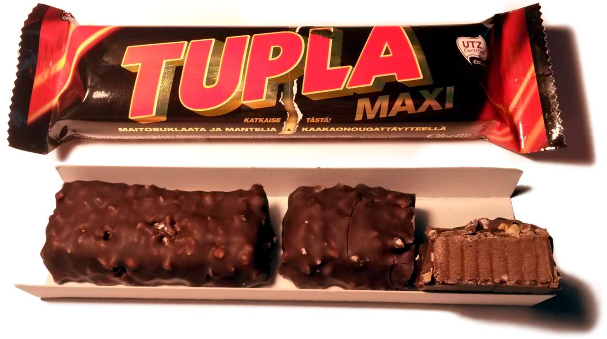 Tupla (finnish for "double") maxi chocolate bar. The bar weights 50 g. It has two pieces of almond chip covered cocoa nougat with milk chocolate coating. Manufactured by finnish food company Cloetta Suomi Oy.